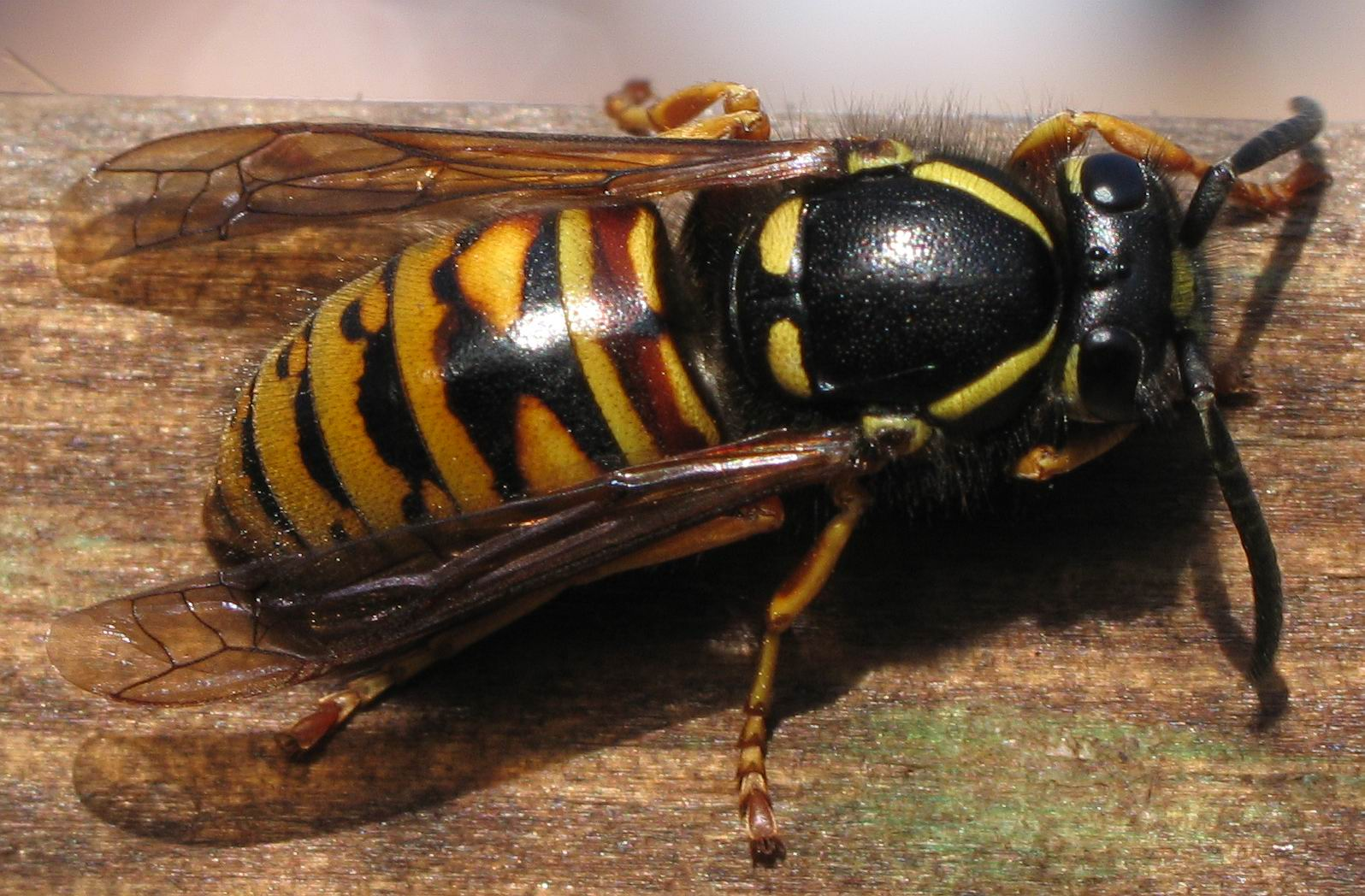 A photo of a wasp queen (Vespula rufa). Taken in nothern Germany.